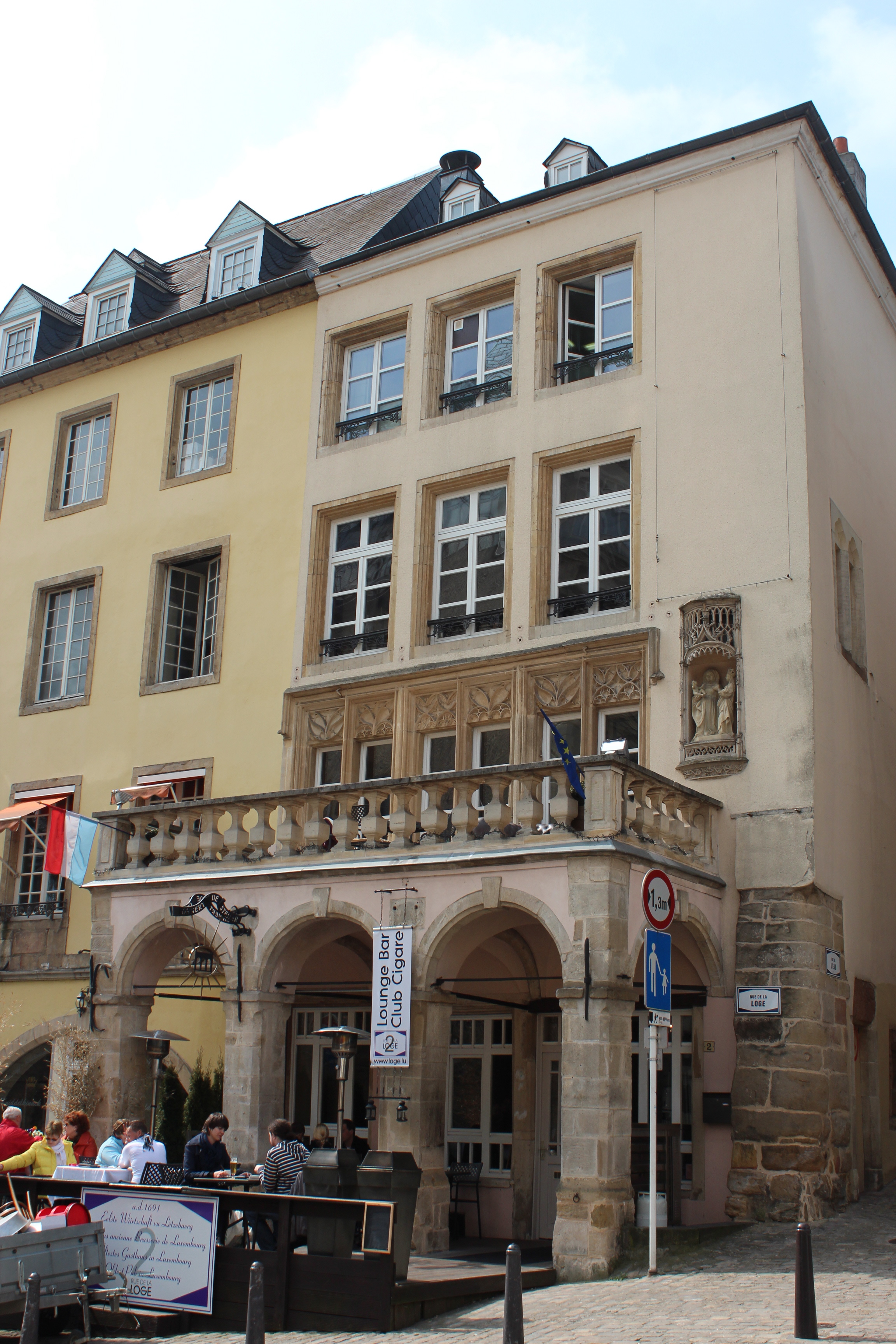 House Ënnert de Stäiler ("Under the Pilars") at Fëschmaart (Marché aus Poissons; "Fish market") in Luxembourg City; one of the eldest preserved buildings in town.